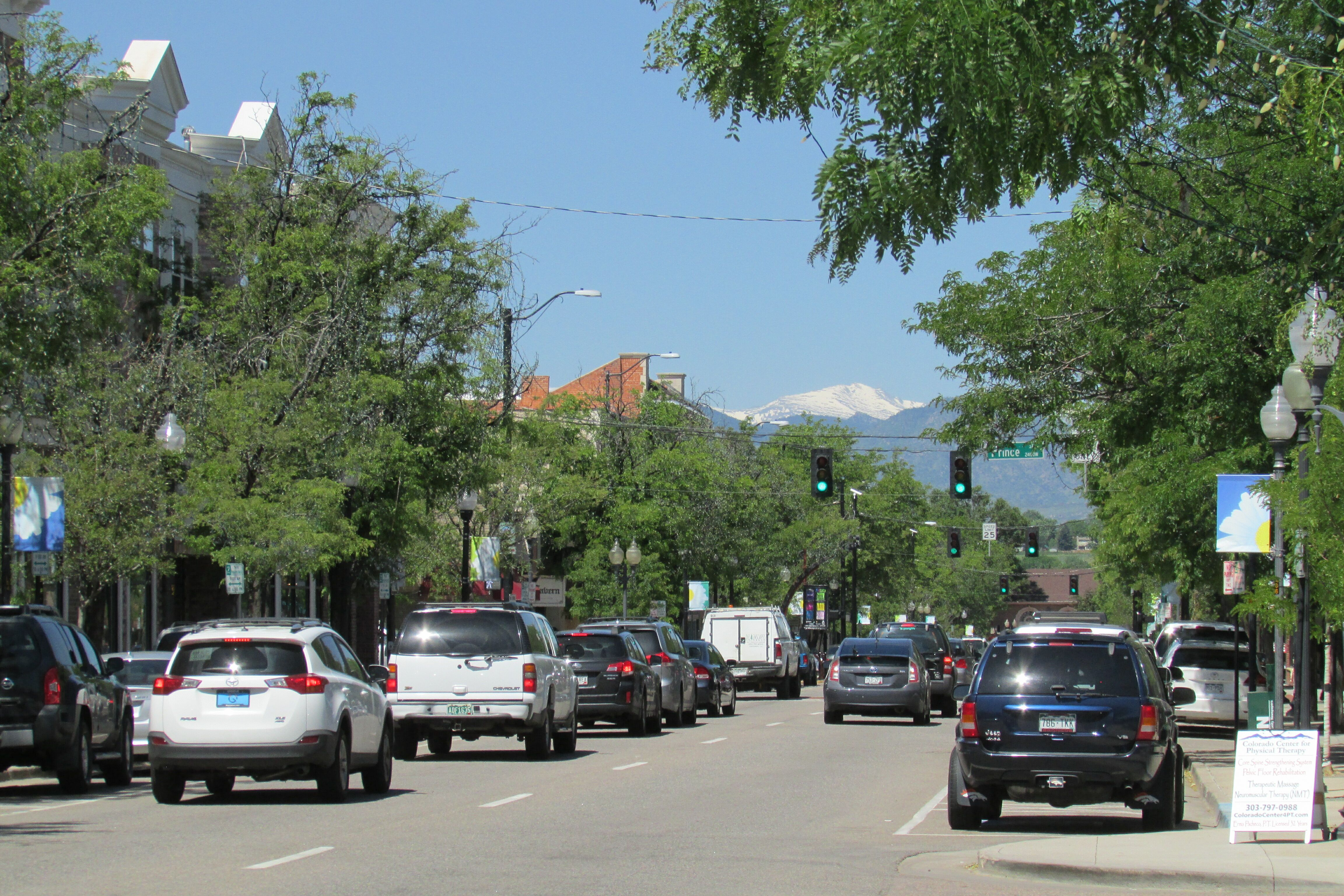 Main Street Historic District (Littleton Colorado)